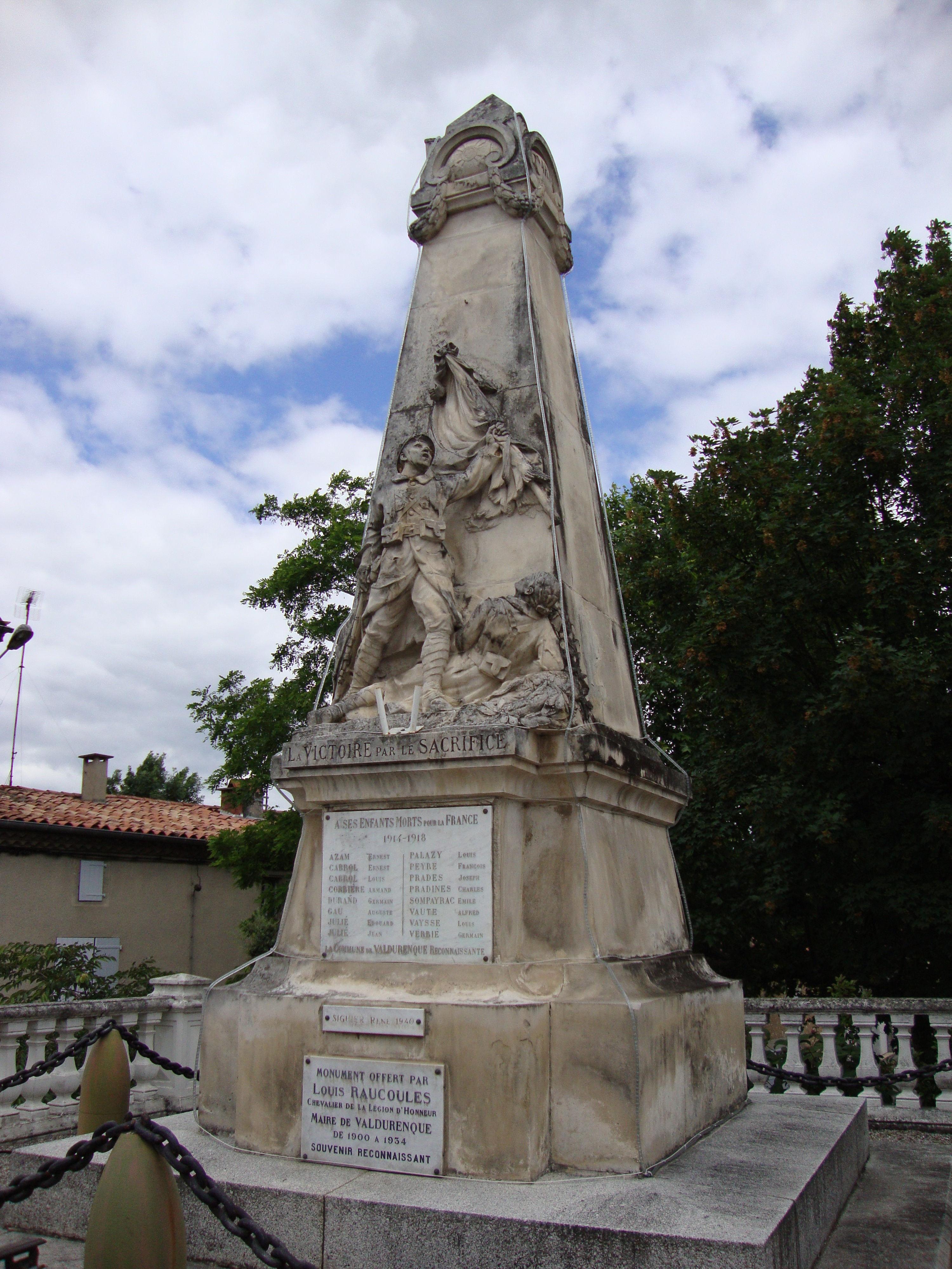 Valdurenque (Tarn, Fr) war memorial